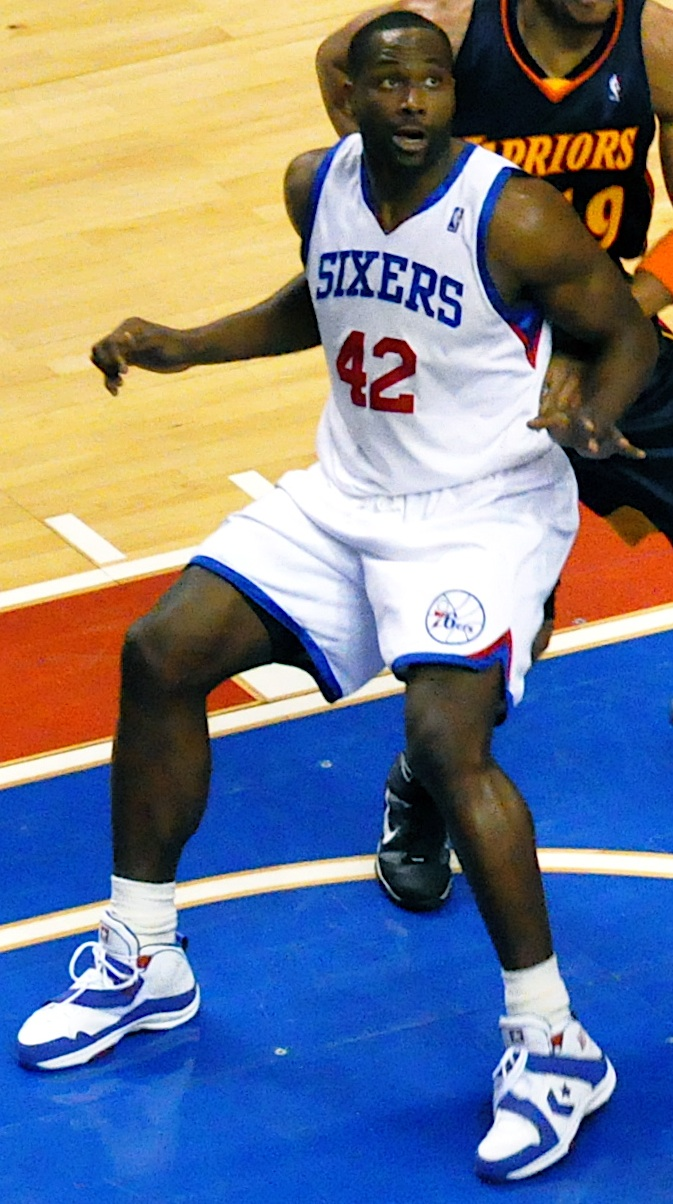 Elton Brand during a game between the Golden State Warriors and the Philadelphia 76ers. This file has been extracted from another file: Willie Green shooting over Anthony Randolph.jpg